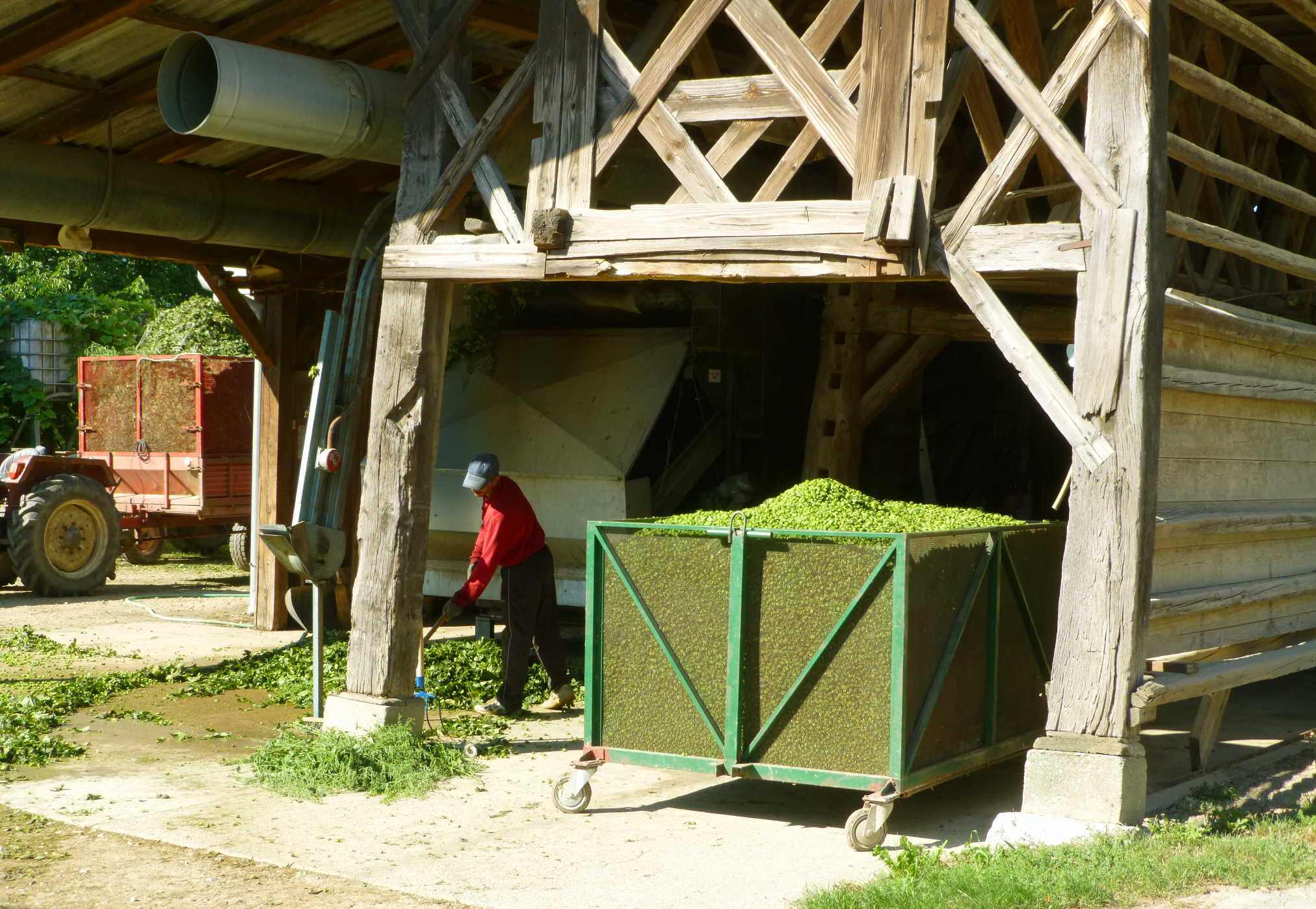 Hop Harvest in Slovenia, near Celje. A machine separates the cones.